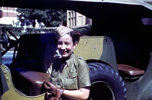 Women's National Emergency Legion driver, Miss Tony Mitchell, at Somerville House in Brisbane, 1942. Mitchell and other members of the Legion were engaged by the US Army to drive cars and trucks around Queensland. At the time the photo was taken Mitchell was the personal driver for US Army Brigadier General Donaldson.